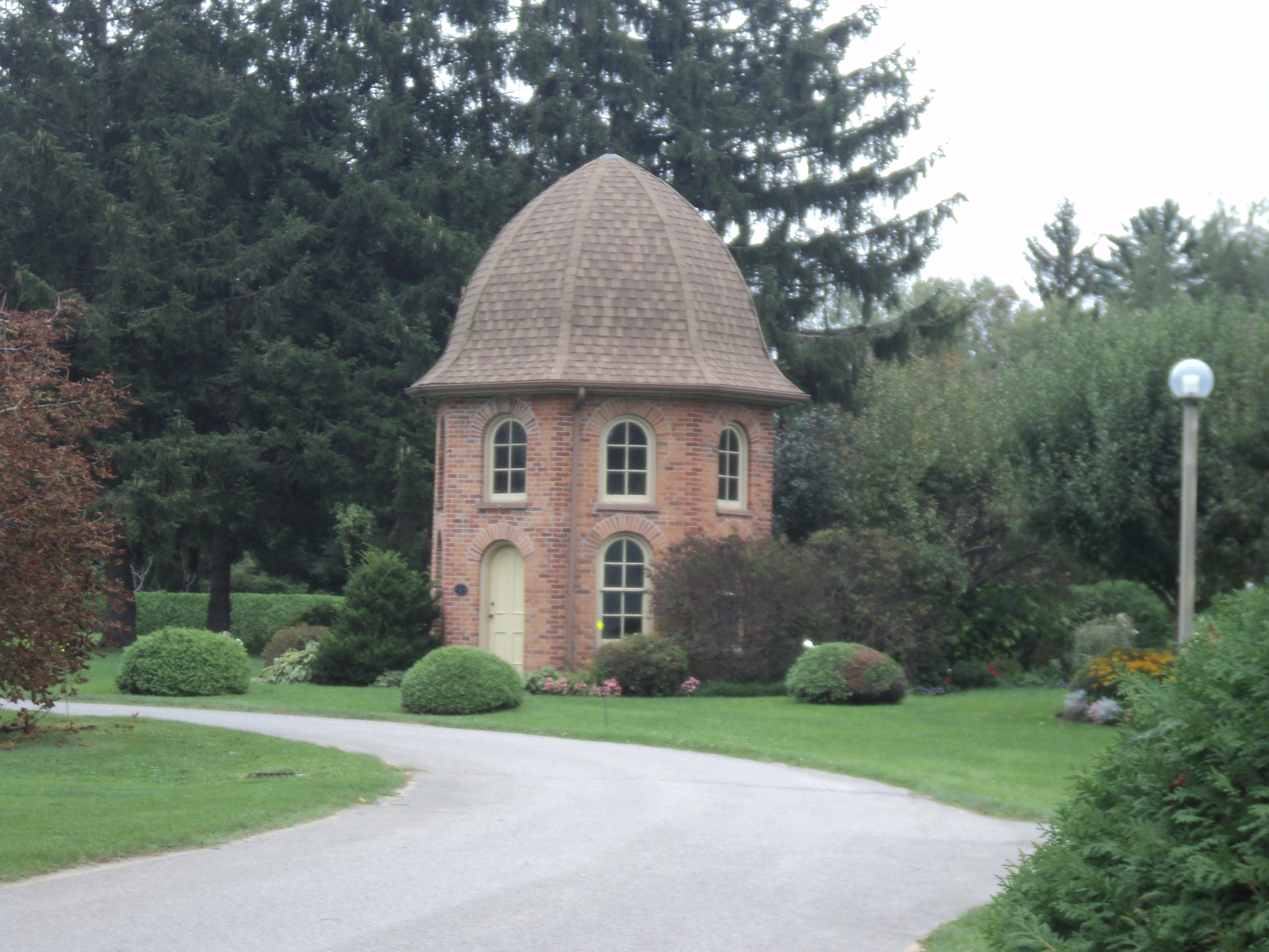 View of the Peacock House at The Briars in Georgina, ON.